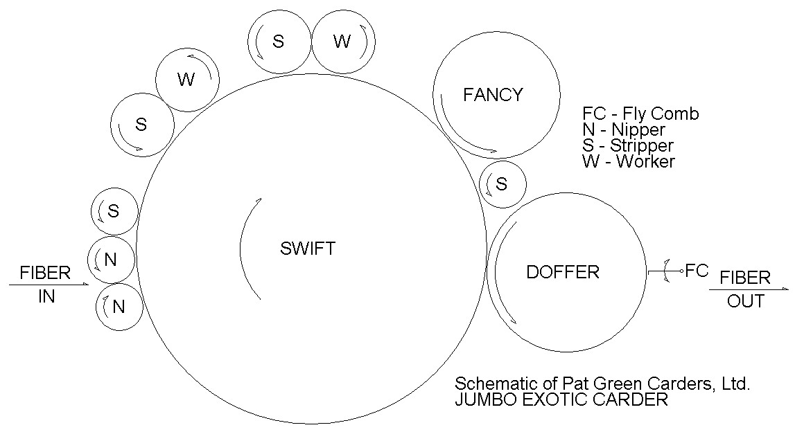 Schematic of Pat Green Carders Ltd. Jumbo Exotic Carder. This drawing made from a similar drawing in "Operating Instructions - Jumbo Exotic Carder" shipped with the carder in this image.